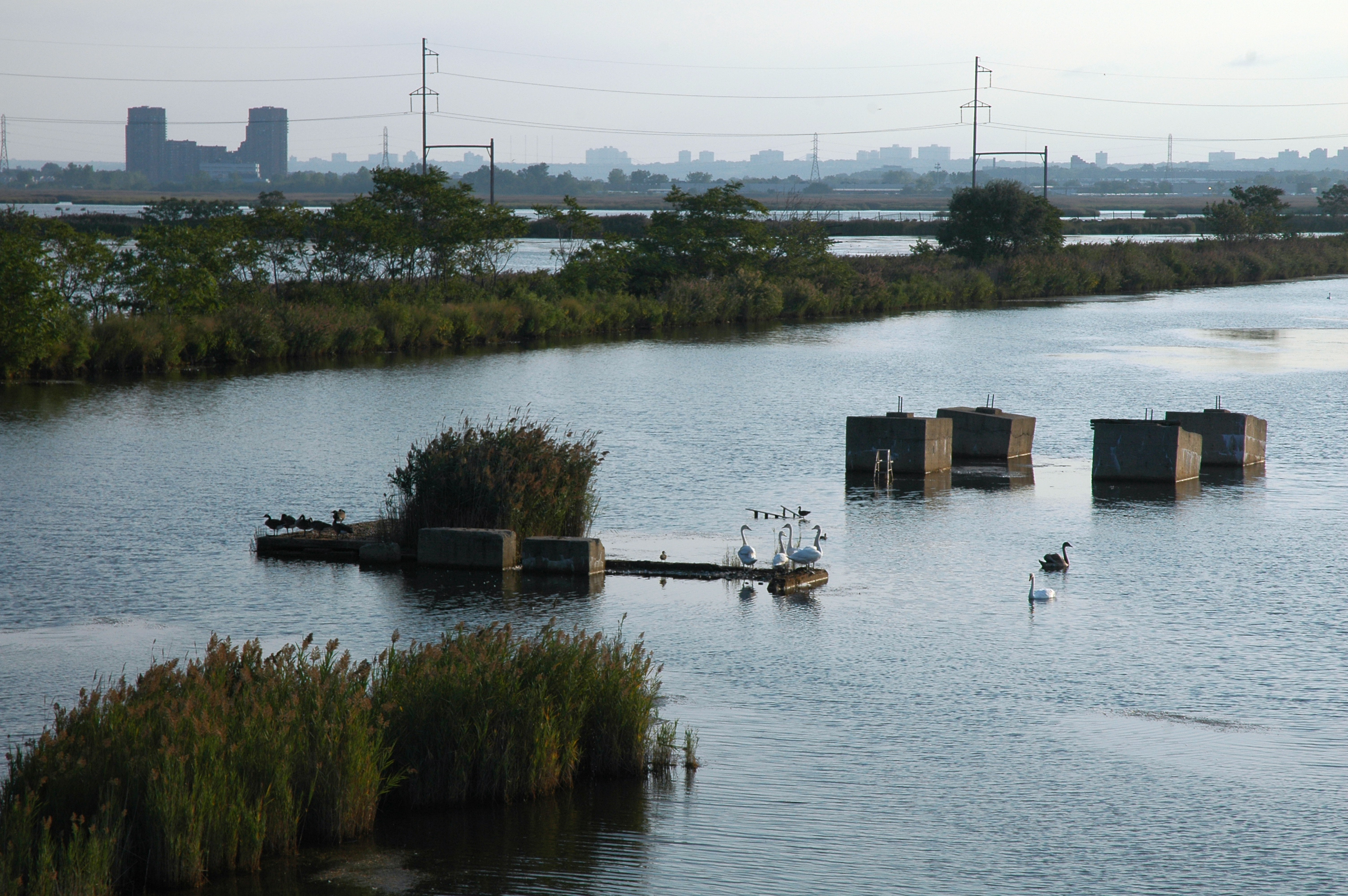 New Jersey Meadowlands from Route 7 near South Arlington. Photography by Leif Knutsen.